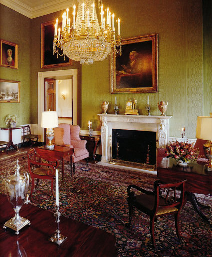 The White House Green Room in 1999, National Archives and Records Administration.